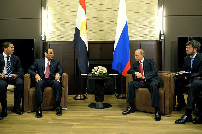 Vladimir Putin held talks in Sochi with President of Egypt Abdel Fattah al-Sisi. Following the talks, the two leaders made press statements. Before the official negotiations, Vladimir Putin and Abdel Fattah al-Sisi visited the Laura Cross-Country Ski and Biathlon Centre in Krasnaya Polyana.